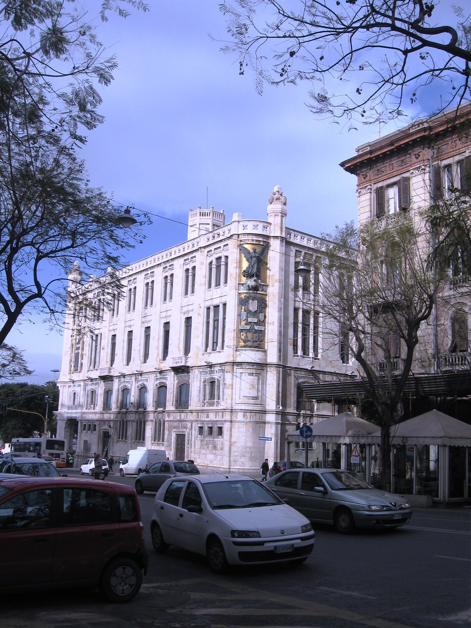 Town_hall_CAGLIARI